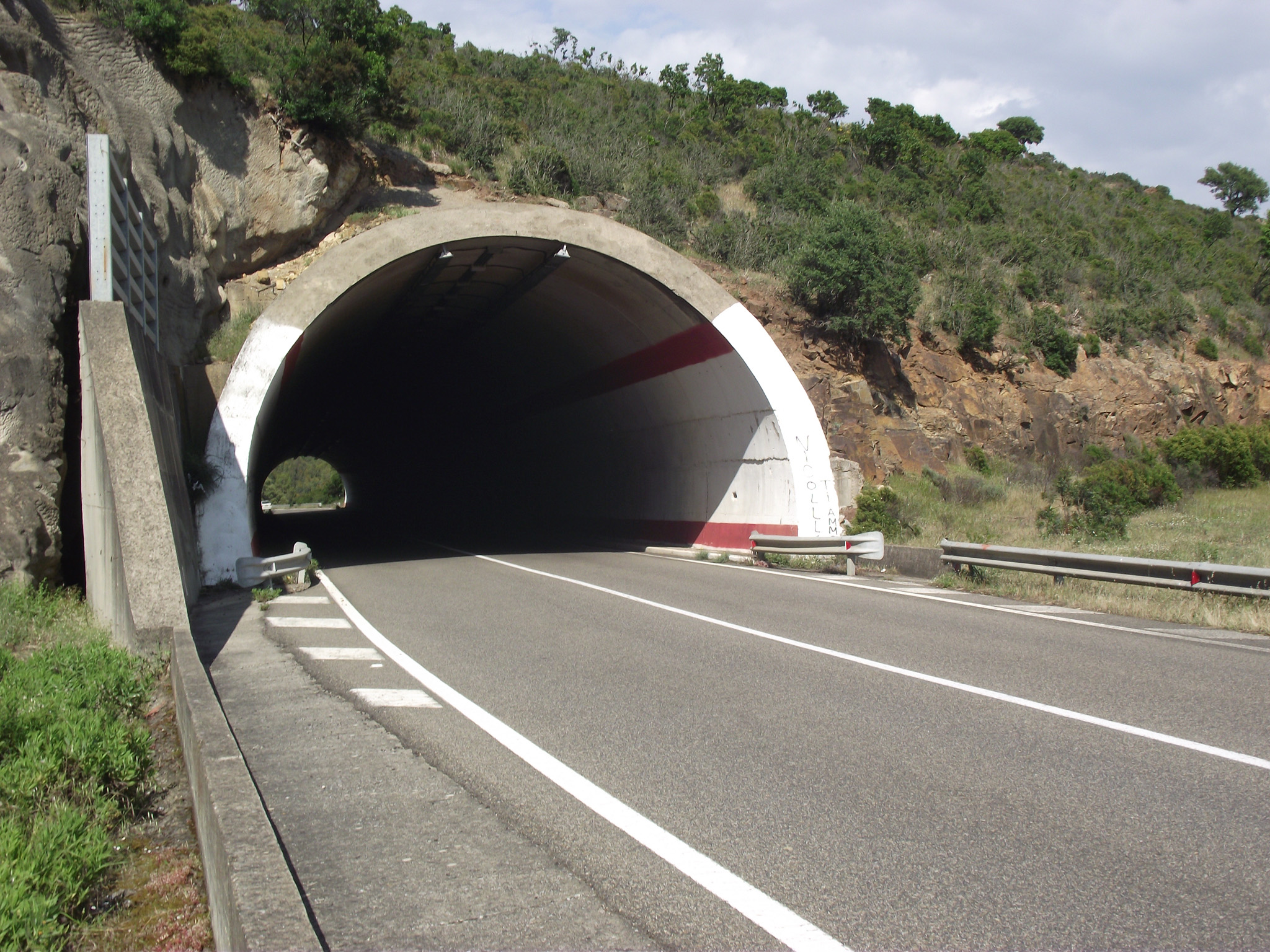 Road tunnel along the SS293 in Sardinia, Italy.